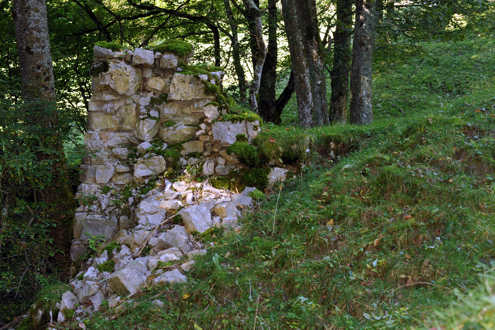 Medieval glass production site at Le Van above La Heutte; Bern, Switzerland. The only remaining rest of the building.